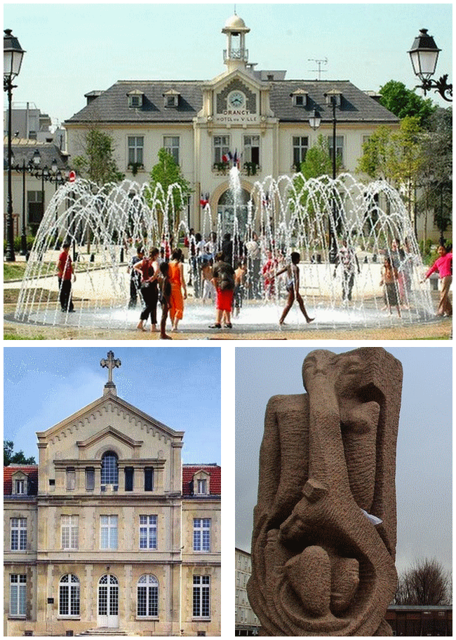 Drancy - Photos